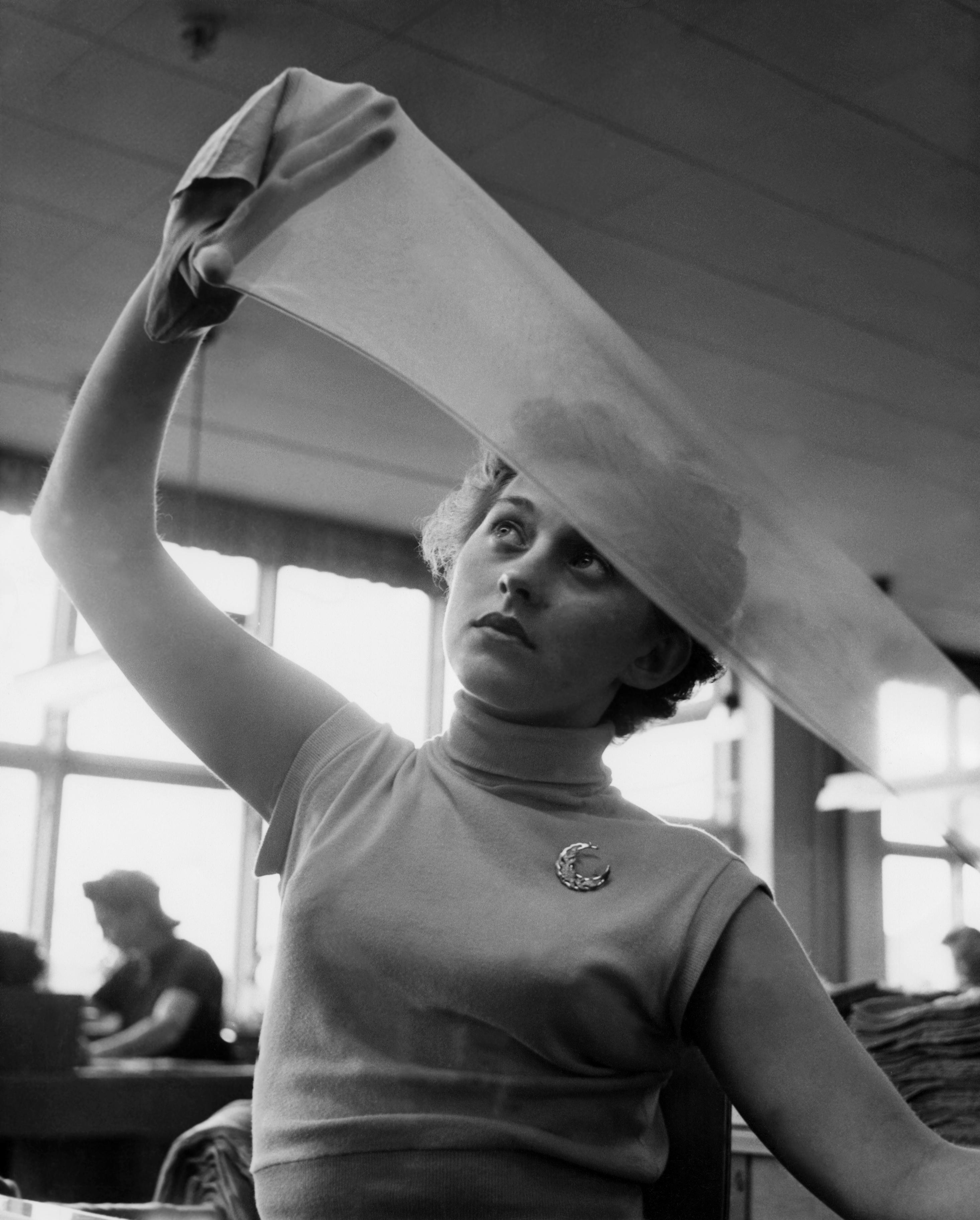 Control of nylon stockings at Malmö Strumpfabrik. A woman holds a sock against the light to examine the quality. Subjects: Work, Industry, Fashion, Textile